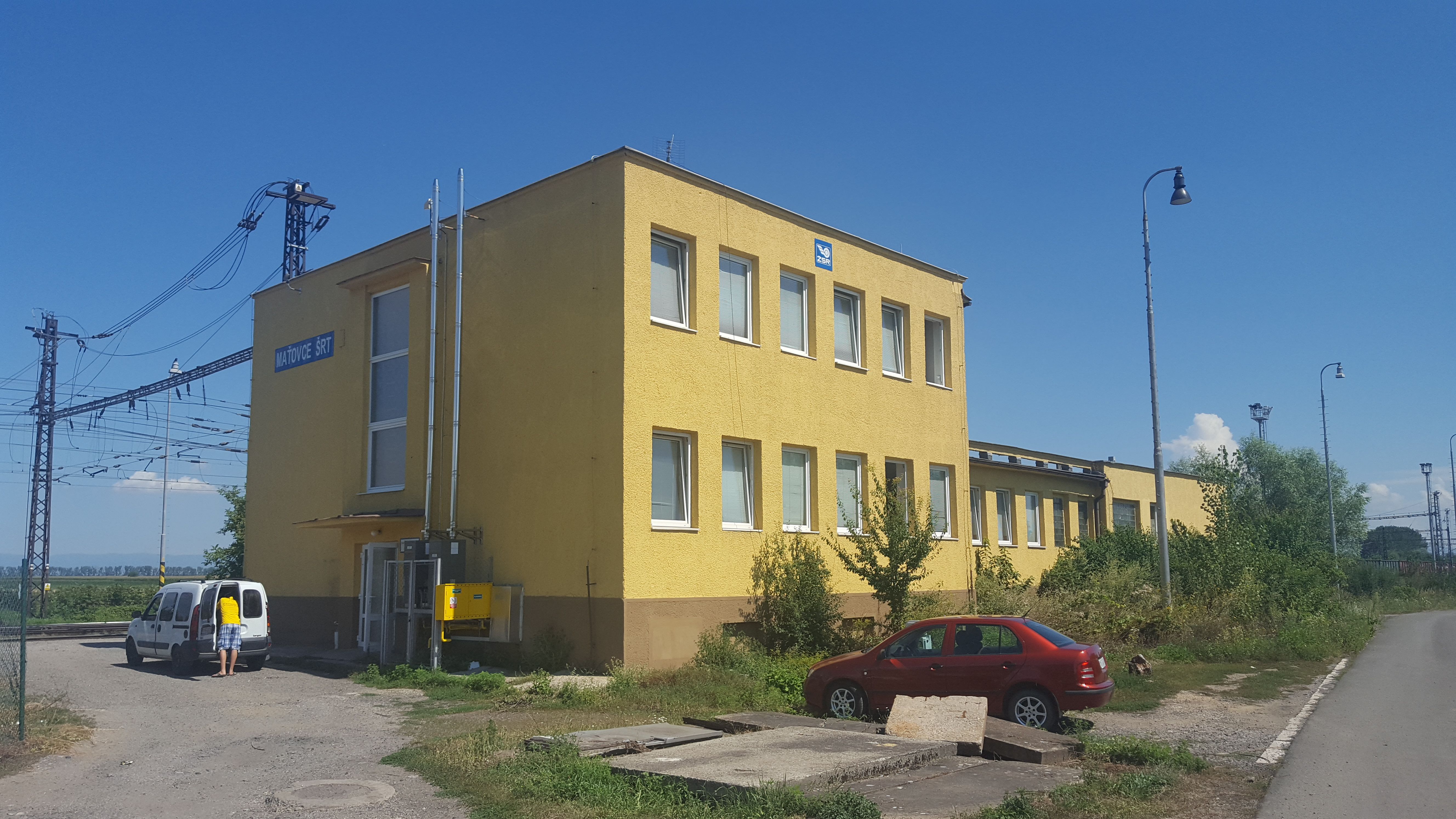 A border train station "Maťovce ŠRT" on a broad-gauge line in Slovakia